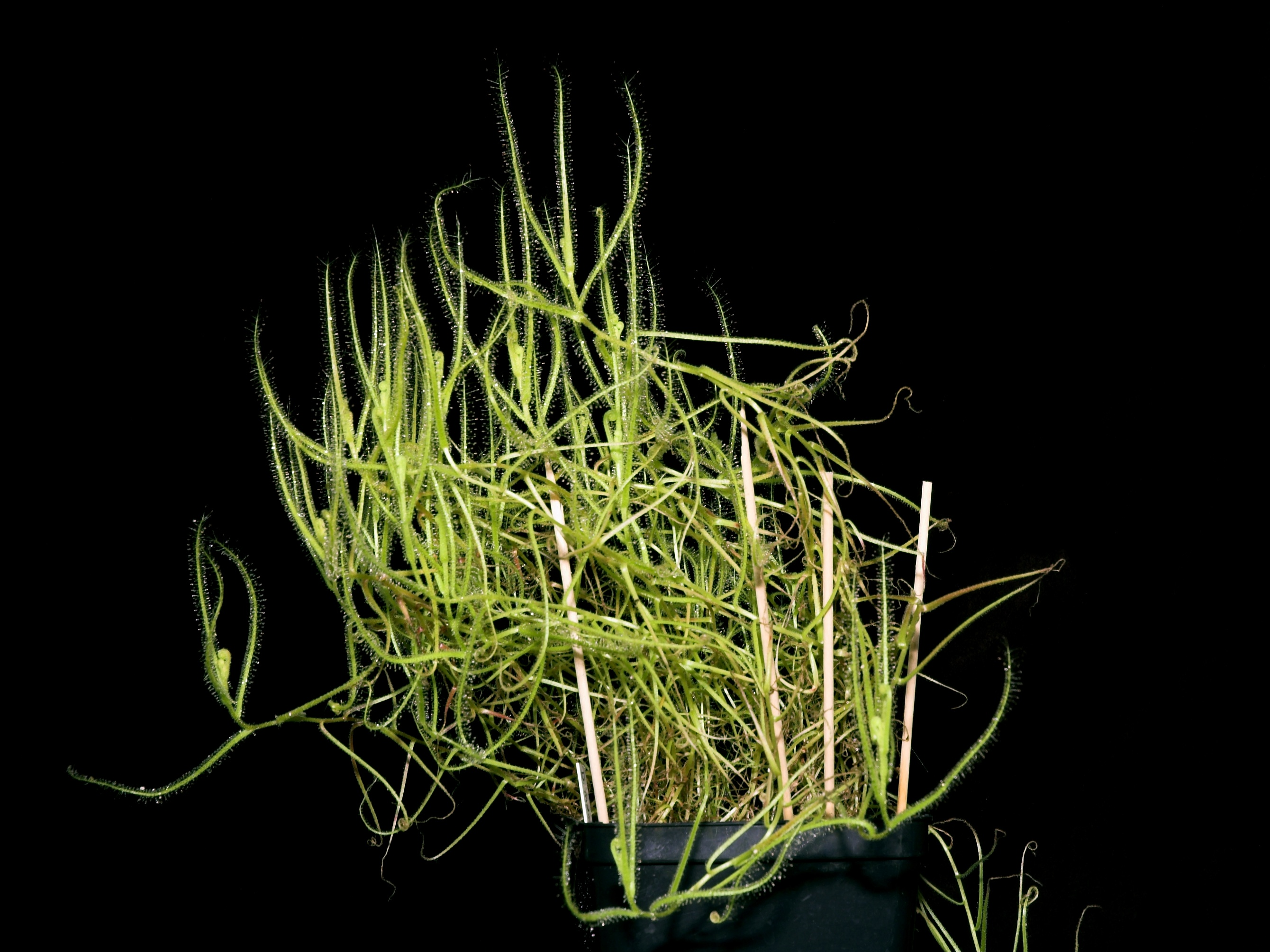 Drosera indica